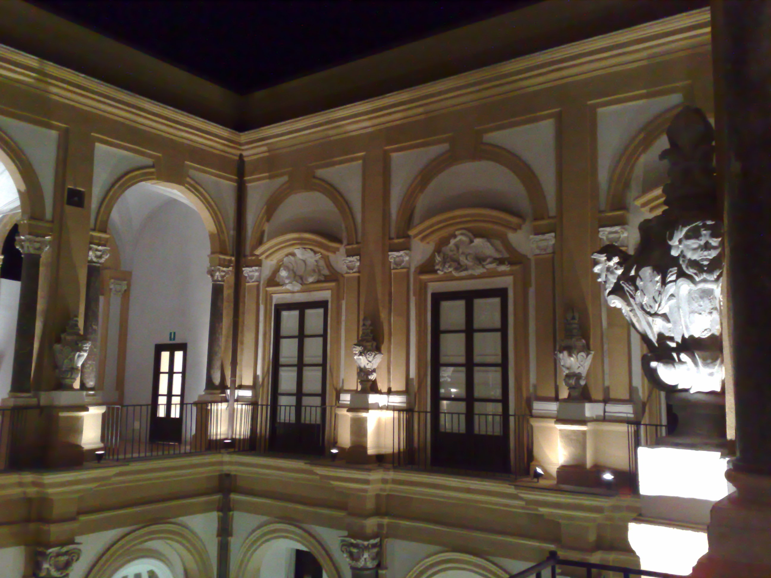 Palazzo Sant'Elia in Palermo